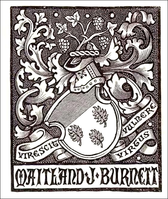 A bookplate of the Scottish philatelist Maitland Burnett showing the arms of the Burnetts of Barns.